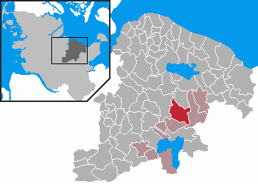 This map shows the area of the Gemeinde (municipality) Lebrade in the Kreis (district) Plön, Schleswig-Holstein, Germany.